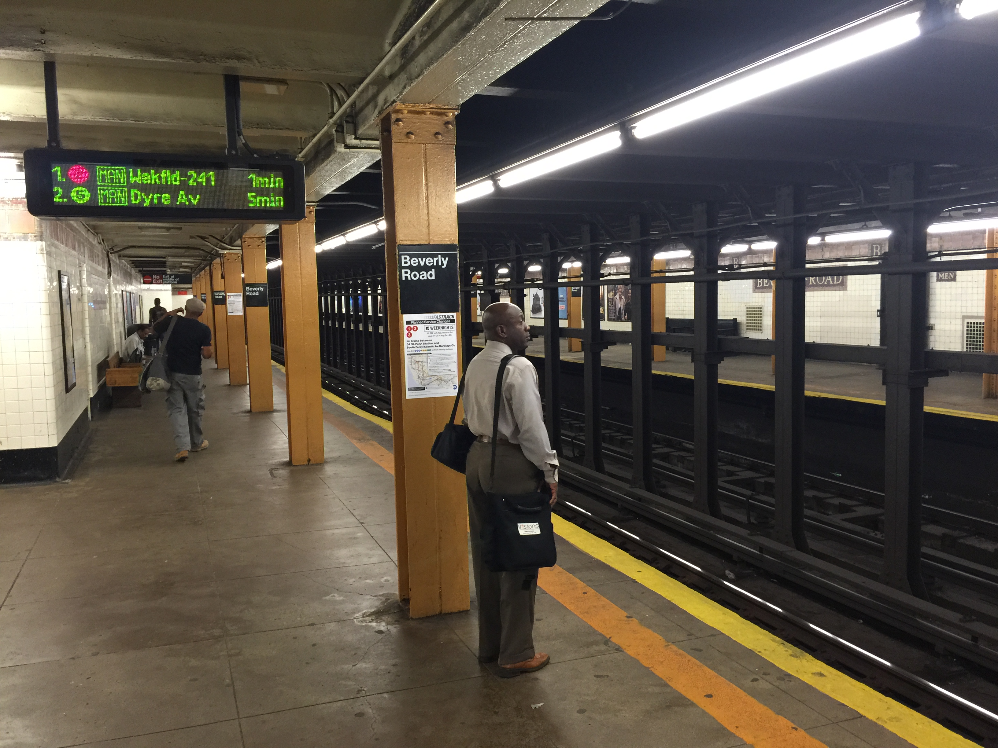 Manhattan-bound platform